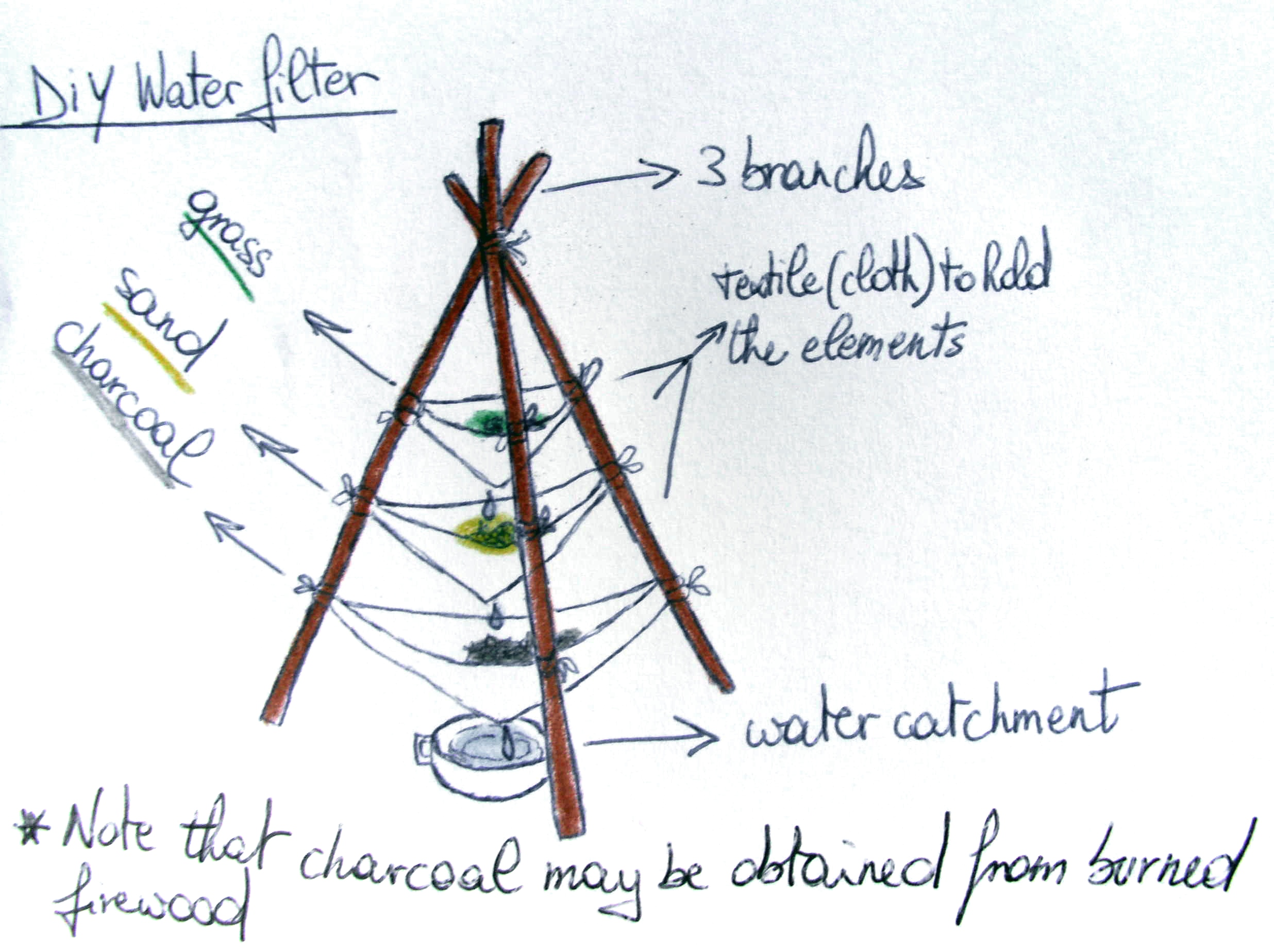 A hand-drawn picture of a diy-waterfilter, which can be made in the field with commonly available materials (branches, cloth, sand, charcoal and grass). It can be used to filter (slightly contaminated/polluted) water so that it is safe for drinking. Charcoal can be produced from wood by the indirect (preferred method) and the direct method. The direct method is easiest and requires only wood, an open fire and some plant material to allow the wood to burn up incompletely (see this website for links). The indirect method (which produces far less smoke and is healthier for environment and the person making the coal) is found here and here. The picture has been drawn after a model from Peter Darman's The Survival Handbook.